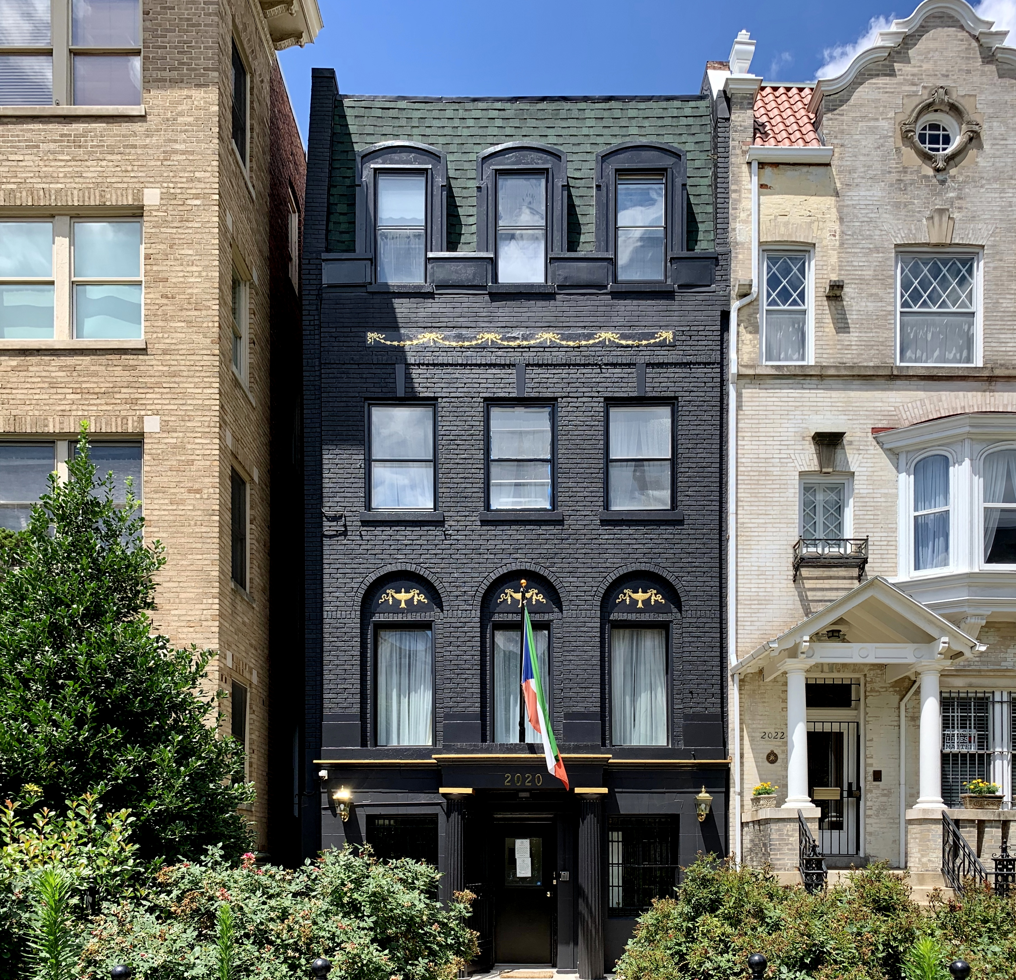 The Embassy of Equatorial Guinea located at 2020 16th Street NW in Washington, D.C. Constructed in 1921, the Italianate building (historically known as the McKay House or Crandel House), is a contributing property to the Sixteenth Street Historic District, listed on the National Register of Historic Places in 1978.